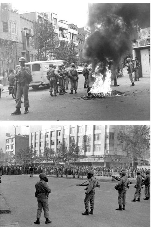 2 photos of 1979 Iranian Revolution